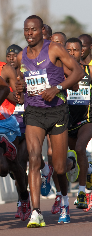 Tadese Tola at Paris marathon. April 2010